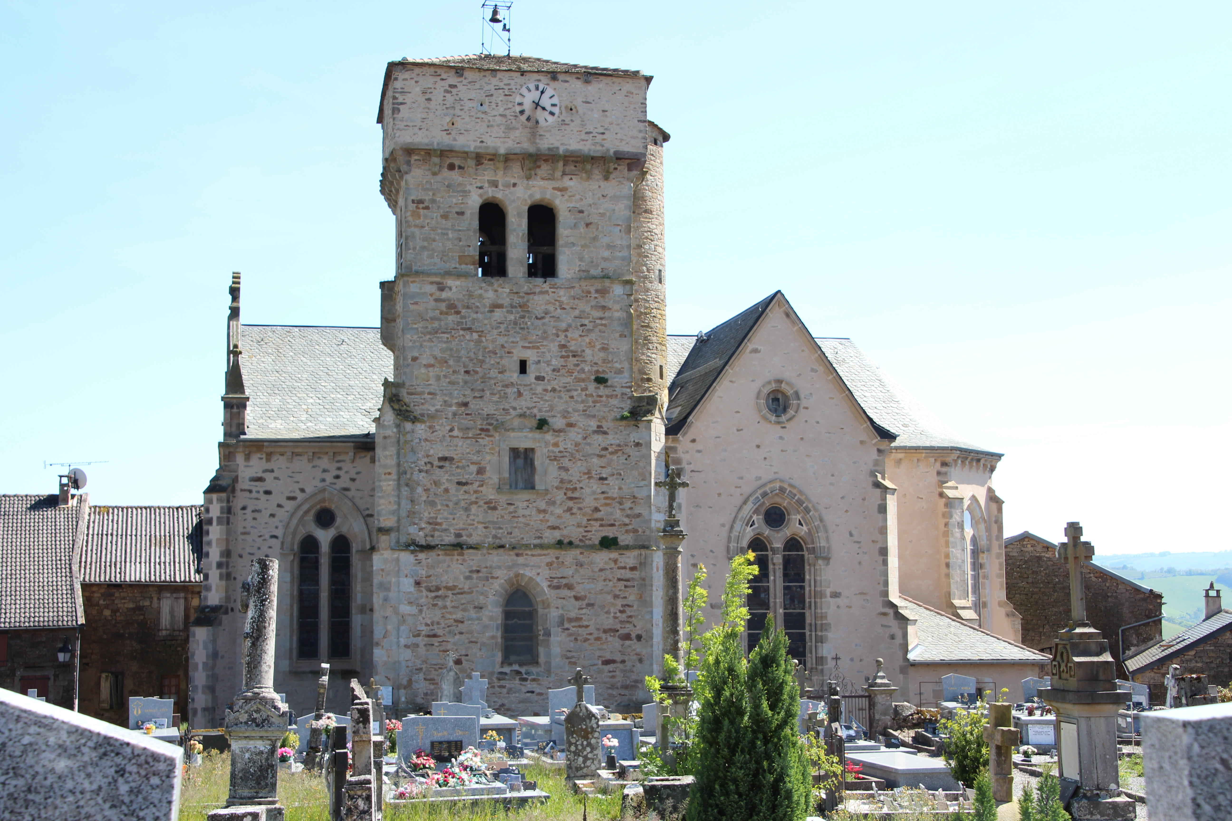 Notre-Dame-de-Septembre church in Martrin, France. Object location43° 56′ 18.96″ N, 2° 37′ 08.76″ E .